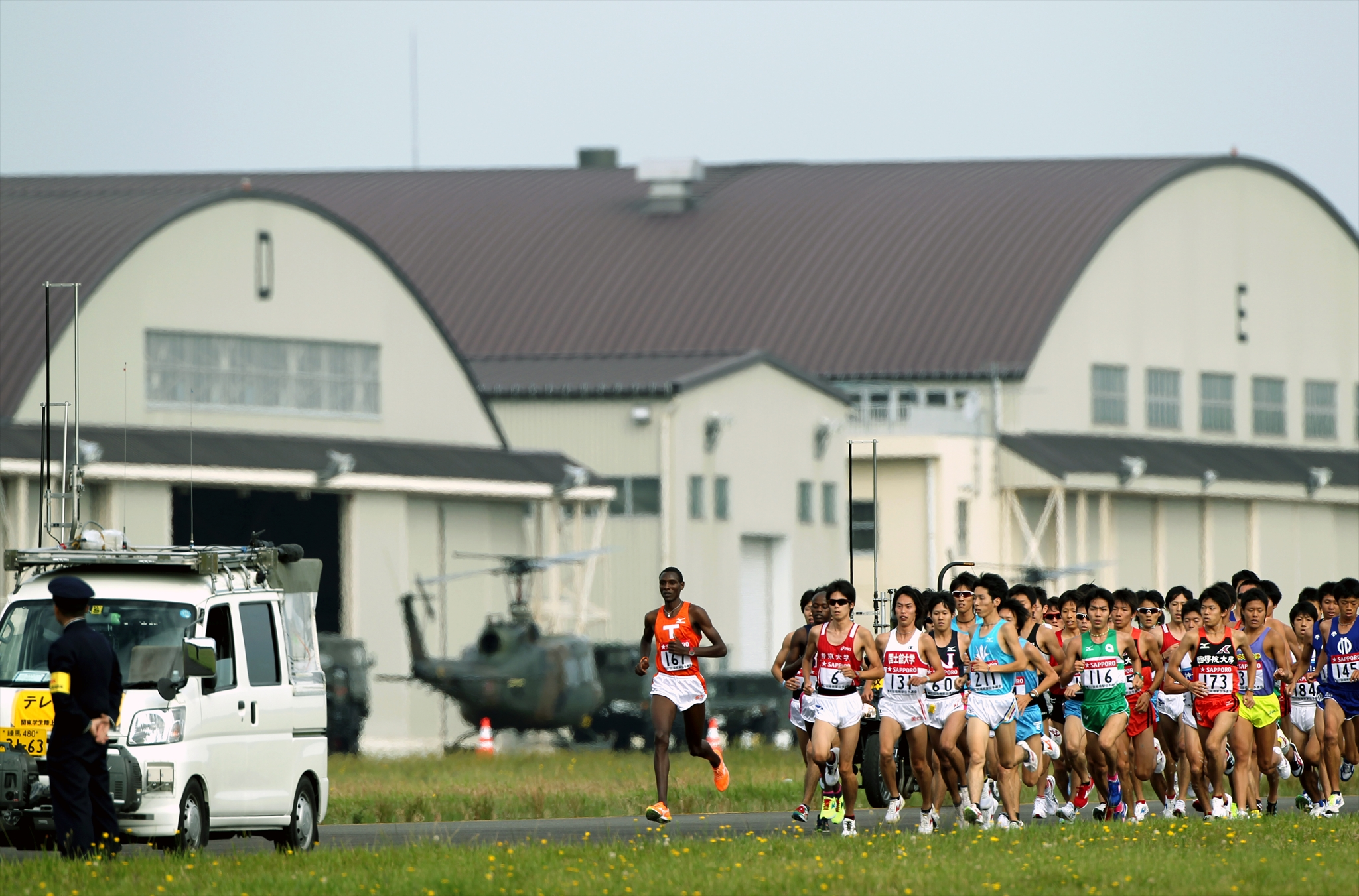 Title 立川飛行場をスタートする箱根駅伝予選会_R.JPG Album Events and Public Relations (イベント・行事・広報活動等) 立川飛行場における箱根駅伝予選会